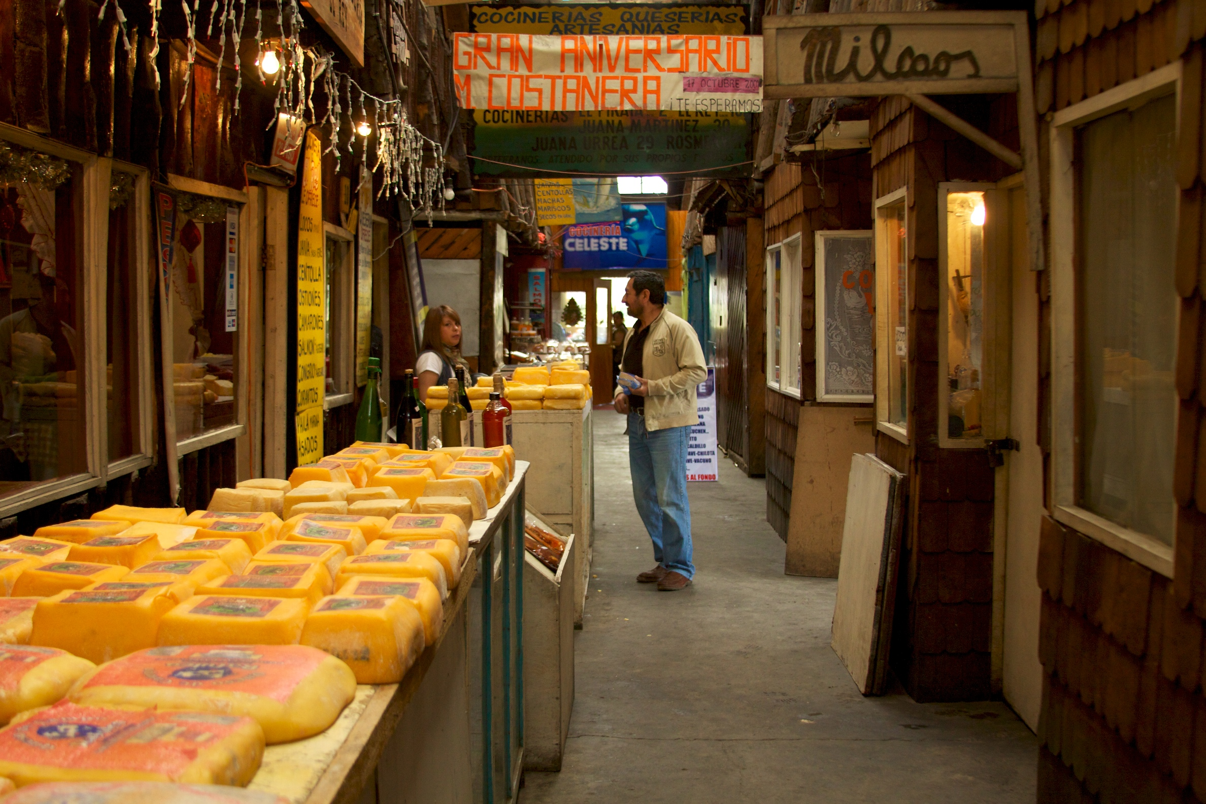 Chile - Puerto Montt 34 - local food market